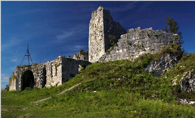 ruins of Anacopia (now New Athos, Abkhazia)